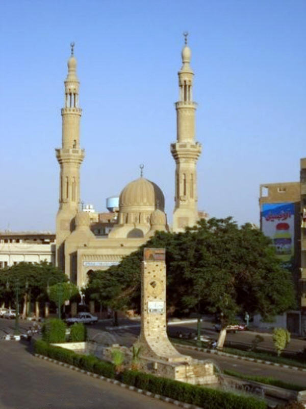 Northern entrance to Minya - Salah ElDeen Mosque